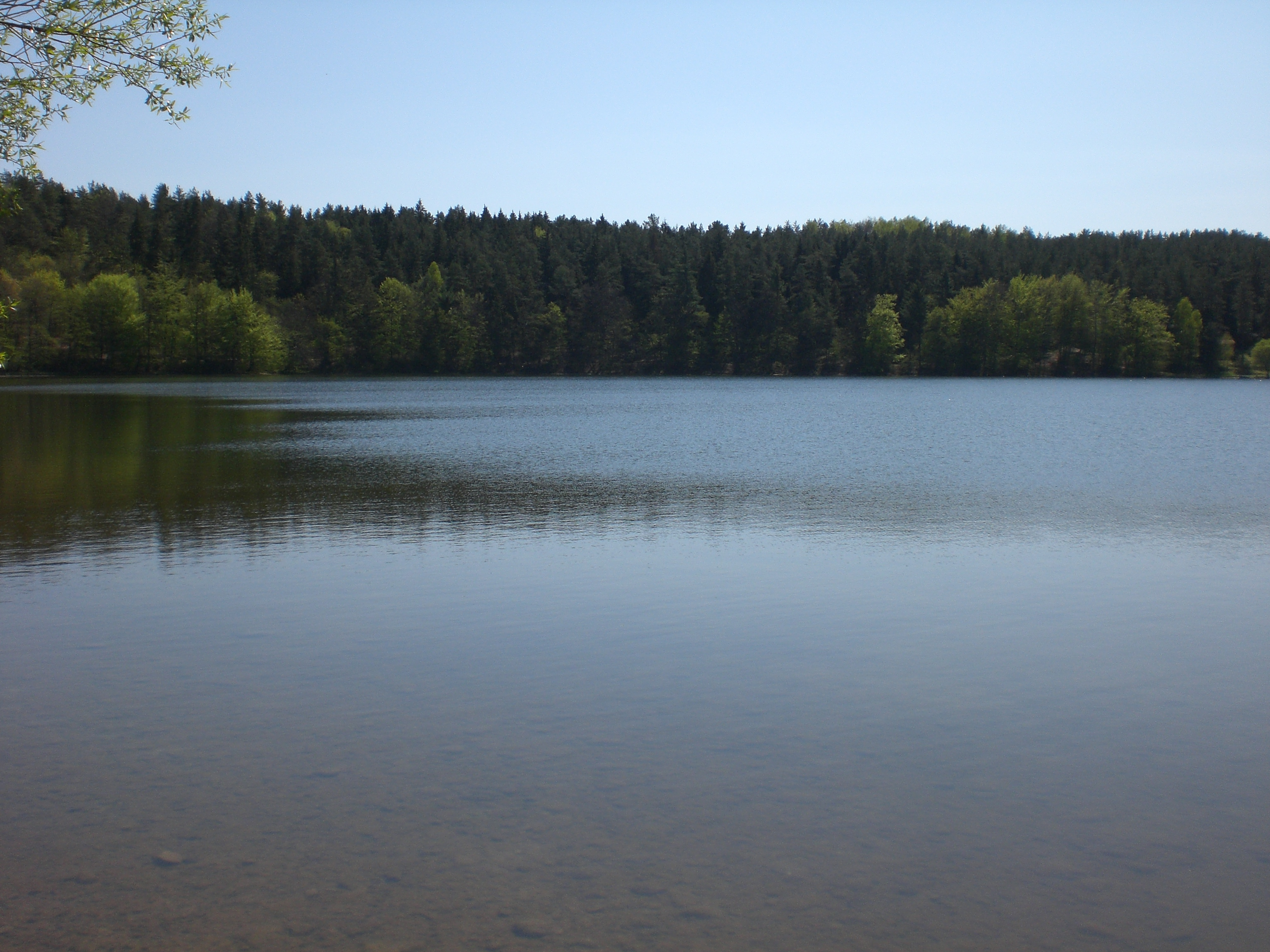 Raduńskie Górne Lake